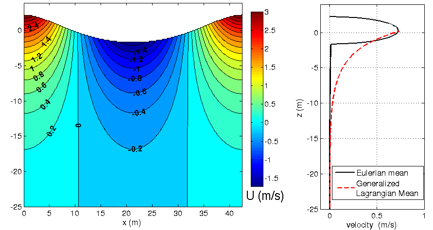 Snapshot of horizontal velocity field under a periodic water wave (T=5 s) and associated Eulerian and Lagrangian mean velocities profiles.